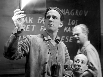 Ingmar Bergman (1918-2007), Swedish stage and film director. Photo: Taken during the production of Wild Strawberries (Smultronstället) (1957). Svensk Filmindustri (SF) press photo. Source: Svenska filministitutet.